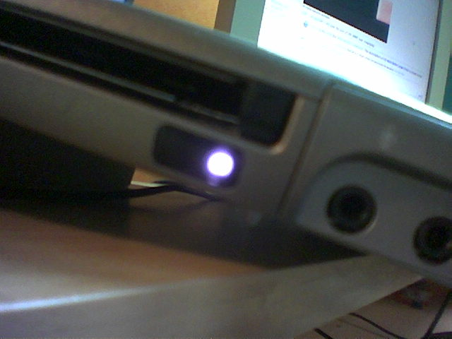 Picture of a Dell Latitude D600 performing an Infrared hand-shake.